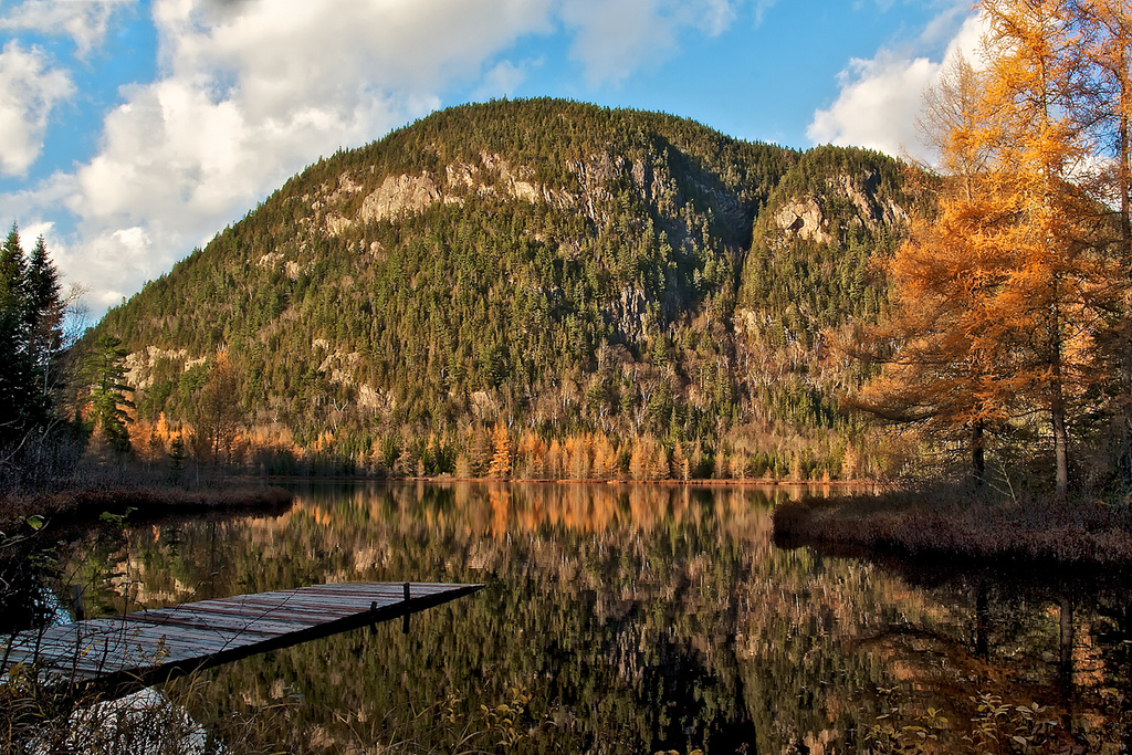 Photo of dock and lake taken in Bras du nord, St-Raymond, Portneuf, Quebec, Canada.